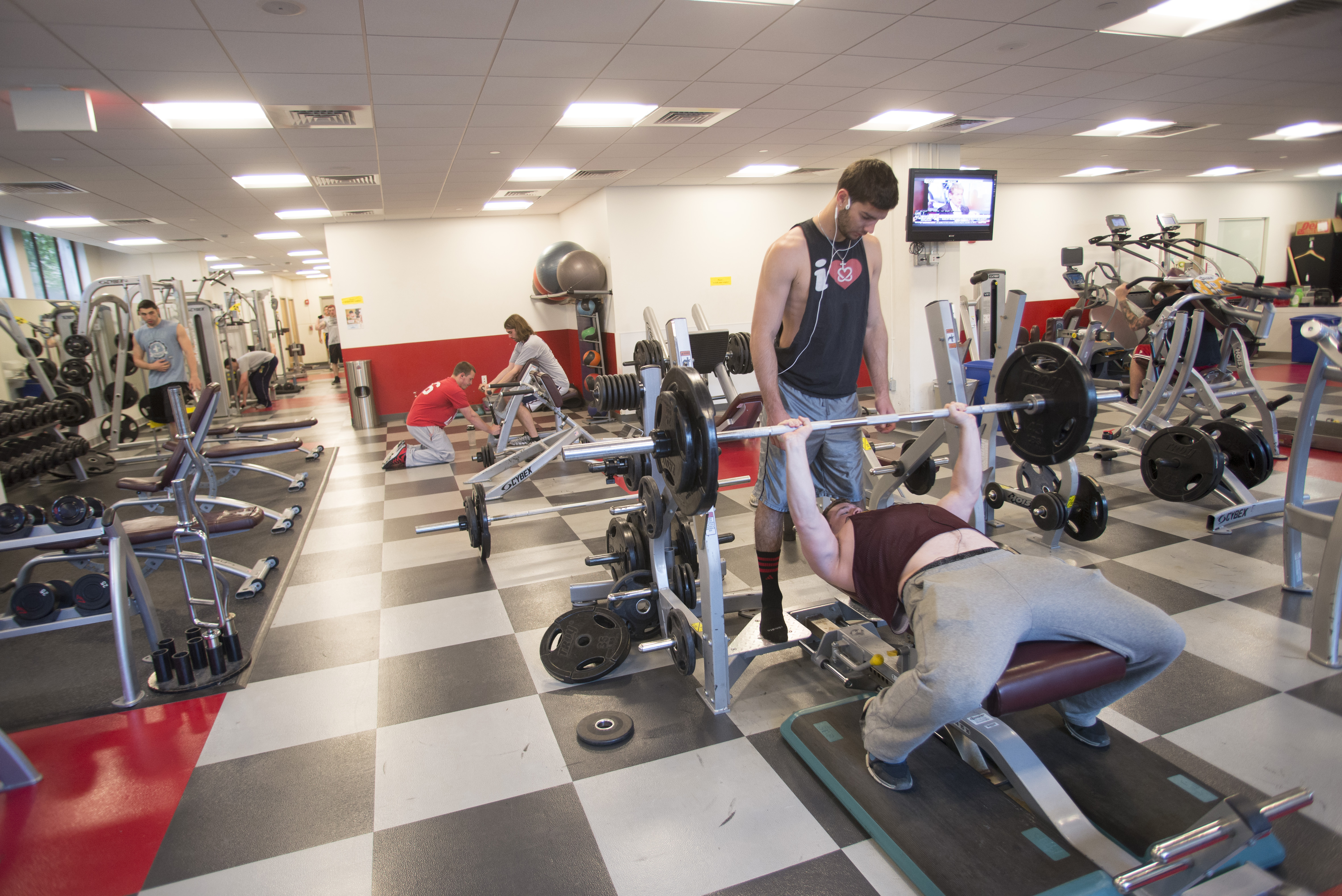 Students work-out in the Schumann Fitness Center